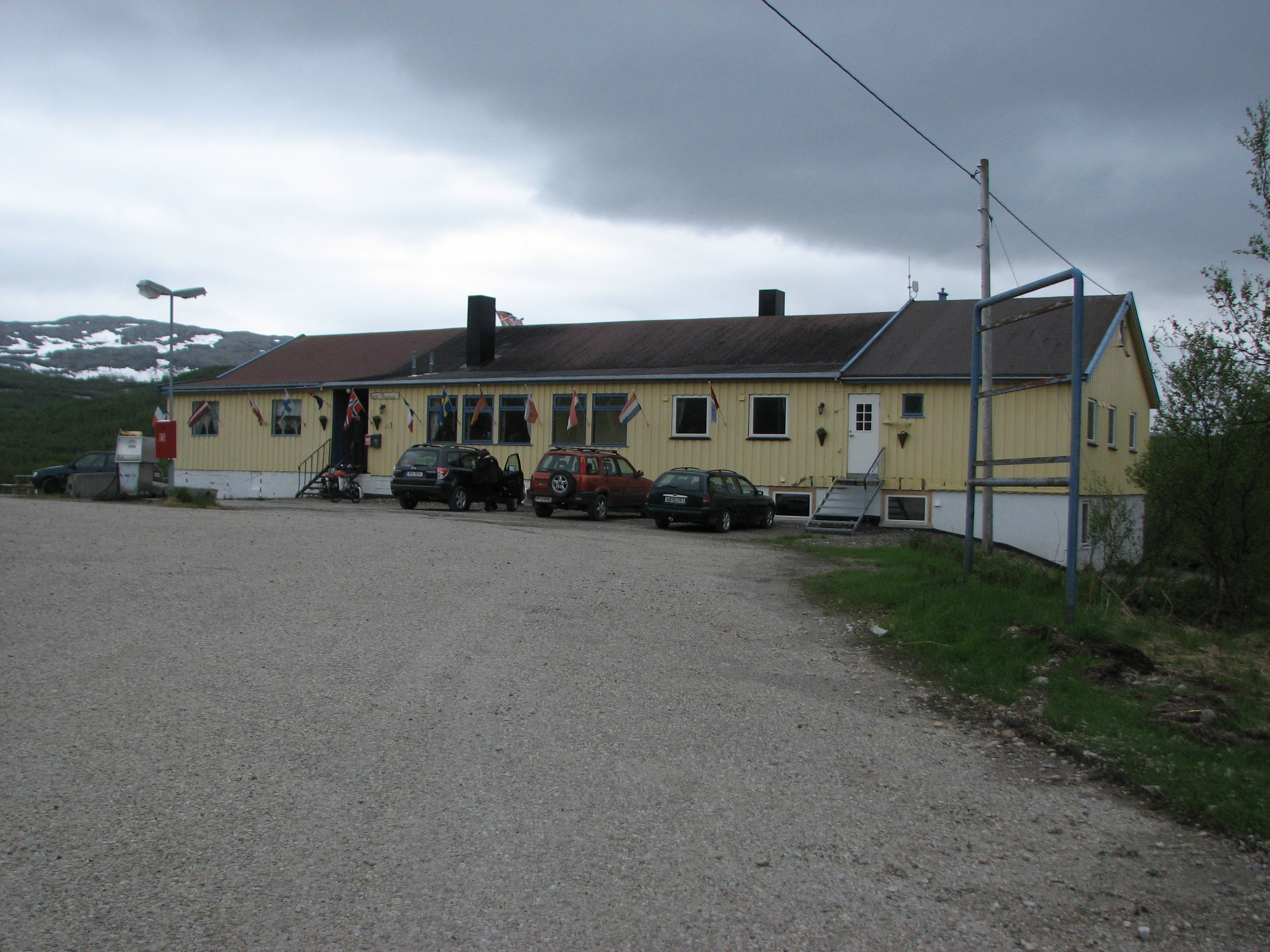 Ifjord, Lebesby municipality, Finnmark, Norway. Cafe in Ifjord.